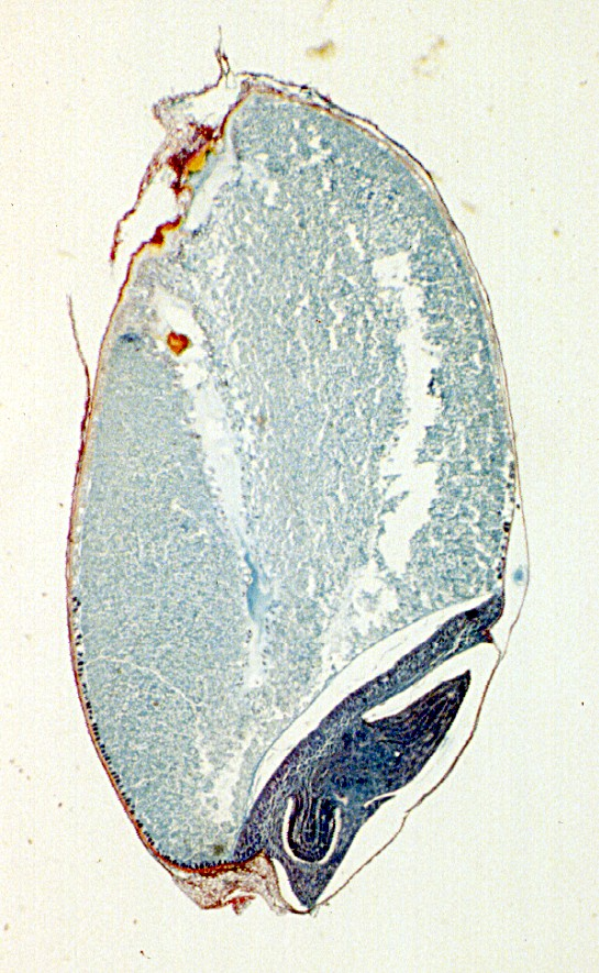 Light micrograph of a longitudinal section of a caryopsis (grain) of Triticum